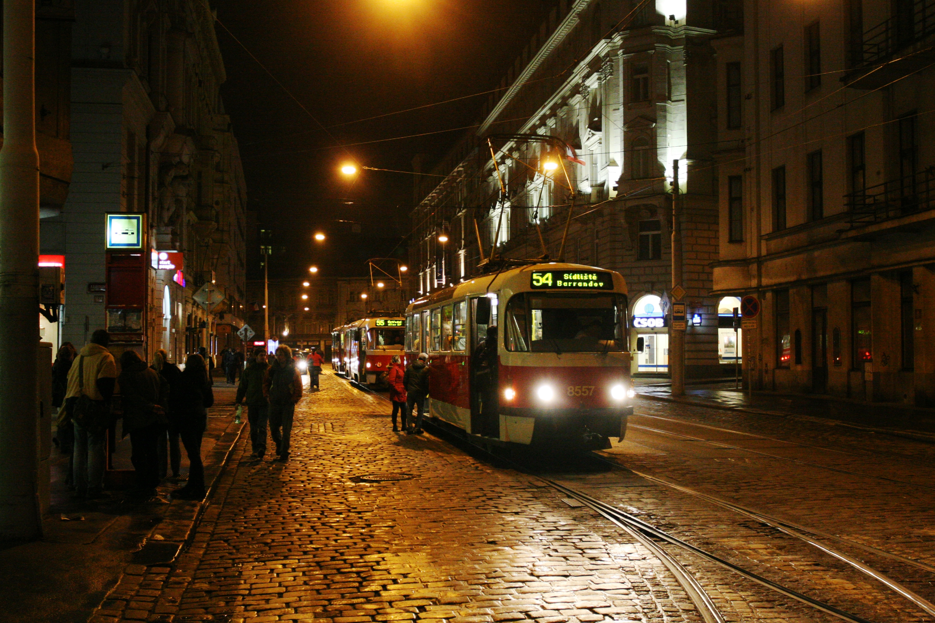 Night tram in Lazarská street, Prague